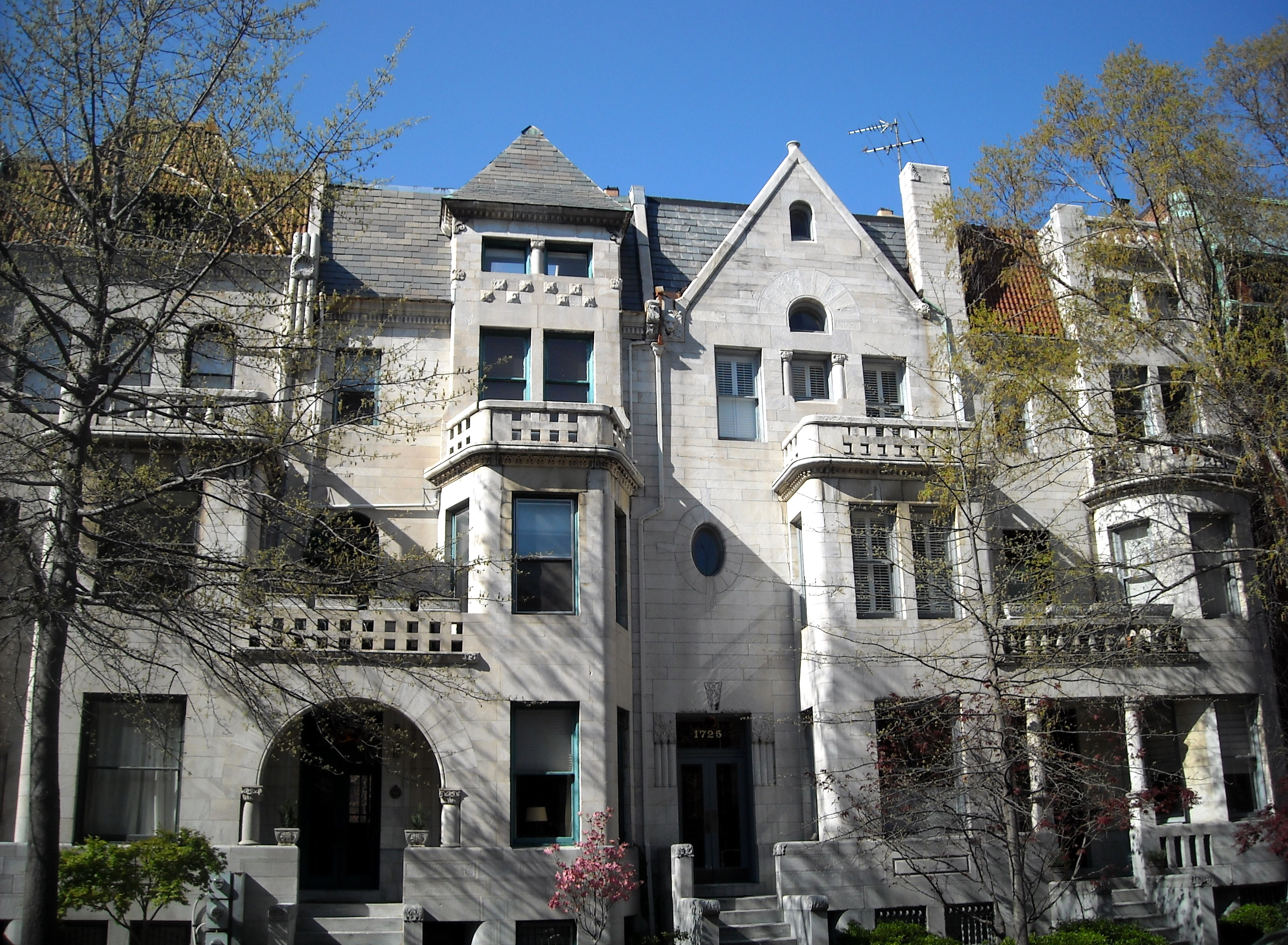 Row houses, located at 1723–1727 P Street, N.W. (right to left), in the Dupont Circle neighborhood of Washington, D.C.. Built in 1890, the Romanesque Revival-style homes are designated as contributing properties to the Dupont Circle Historic District, listed on the National Register of Historic Places in 1978. Former occupants of 1723 P Street, N.W., include Confederate Colonel Joseph Powhatan Minetree and Assistant Architect of the Capitol George H. Williams. Former occupants of 1725 P Street, N.W., include Medal of Honor recipient Colonel John Tweedale, author Willard R. Espy, and offices of the Natural Resources Defense Council. Former occupants of 1727 P Street, N.W., include Walter Proctor Jenney, Ph. D., chargé d'affaires of the Mexican embassy José F. Godoy, Colonel David Jacob Rumbough, and Brigadier General Dion Williams.